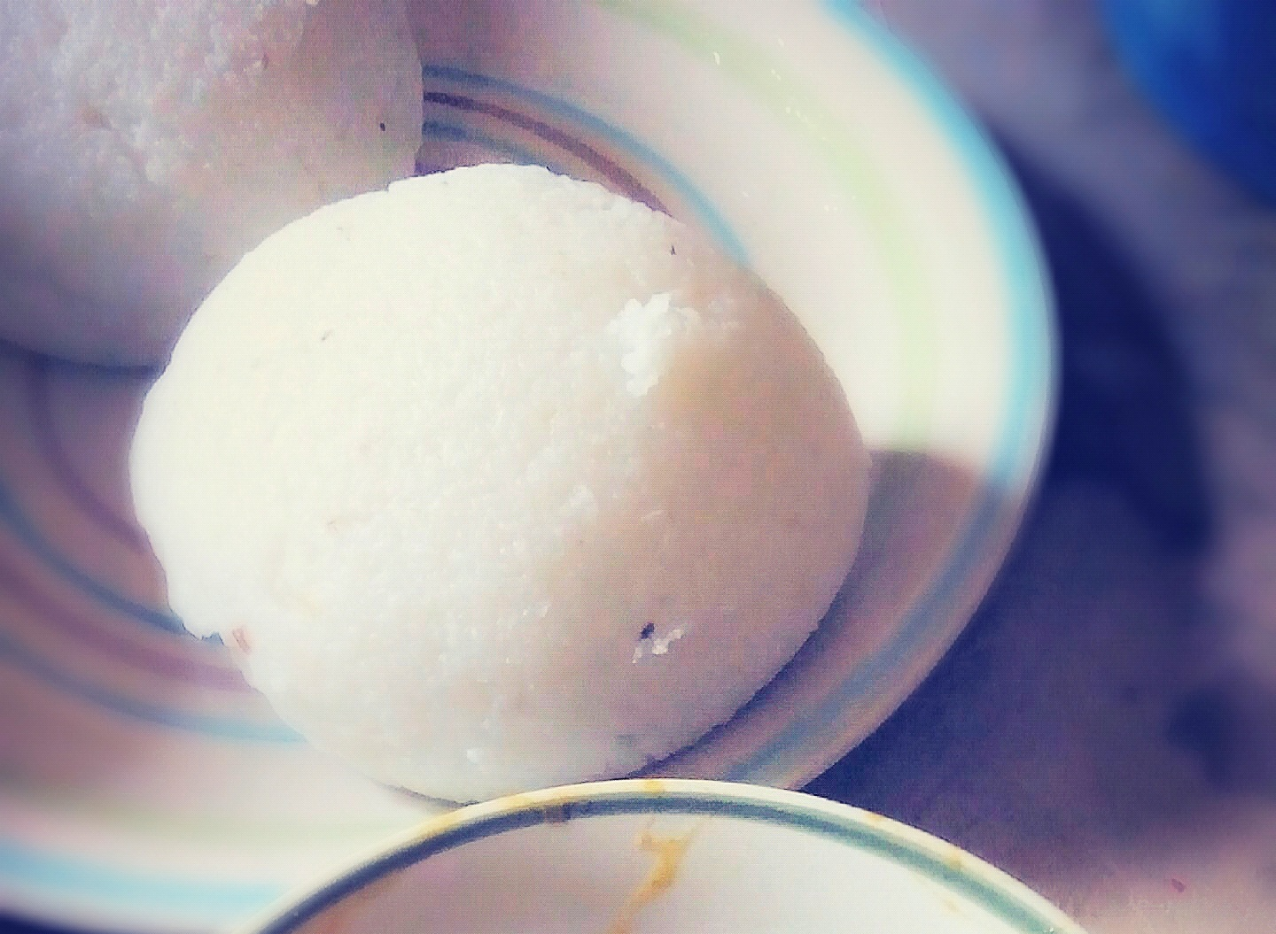 Tuowo shinkafa.northern Nigeria. This is an image of Cultural Fashion or Adornment from Nigeria